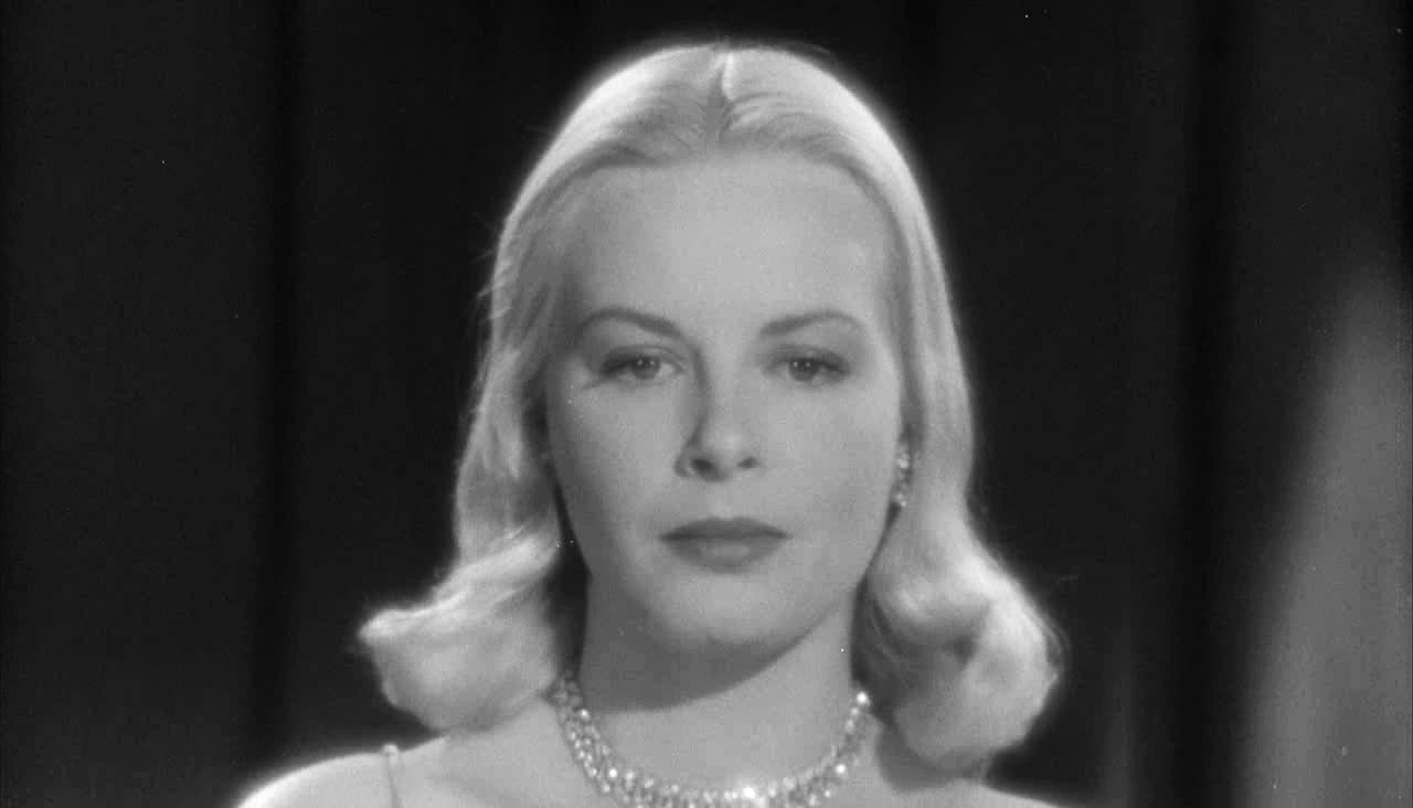 Jean Wallace as Susan Lowell in The Big Combo